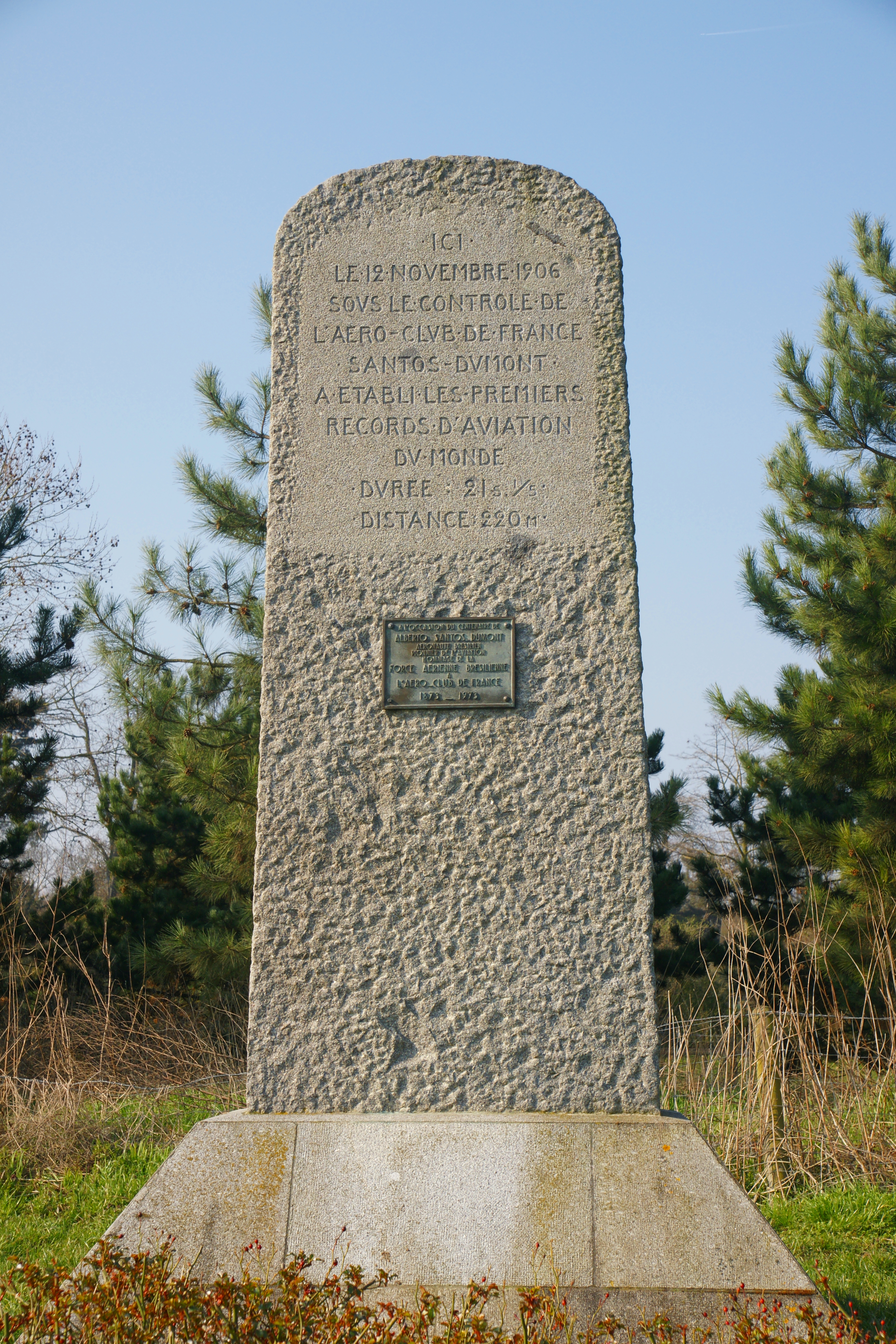 Here on November 12, 1906 under the control of the air club of France Santos-Dumont established the first world aviation records Duration: 21 s 1/5 Distance: 220m - On the occasion of the centenary of Alberto Santos-Dumont Brazilian aeronaut pioneer of aviation Brazilian Aerial Force’s tribute to Air club of France 1873-1973